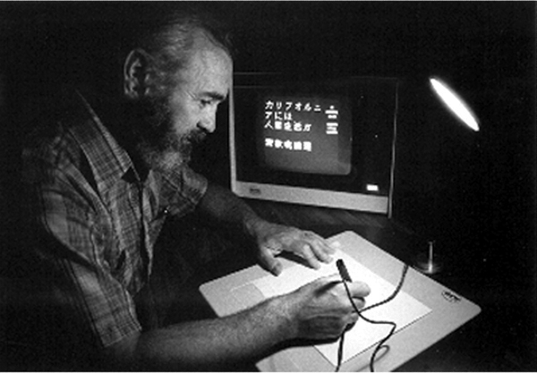 SRI’s Hewitt Crane demonstrates pen-input computing for writing Chinese characters